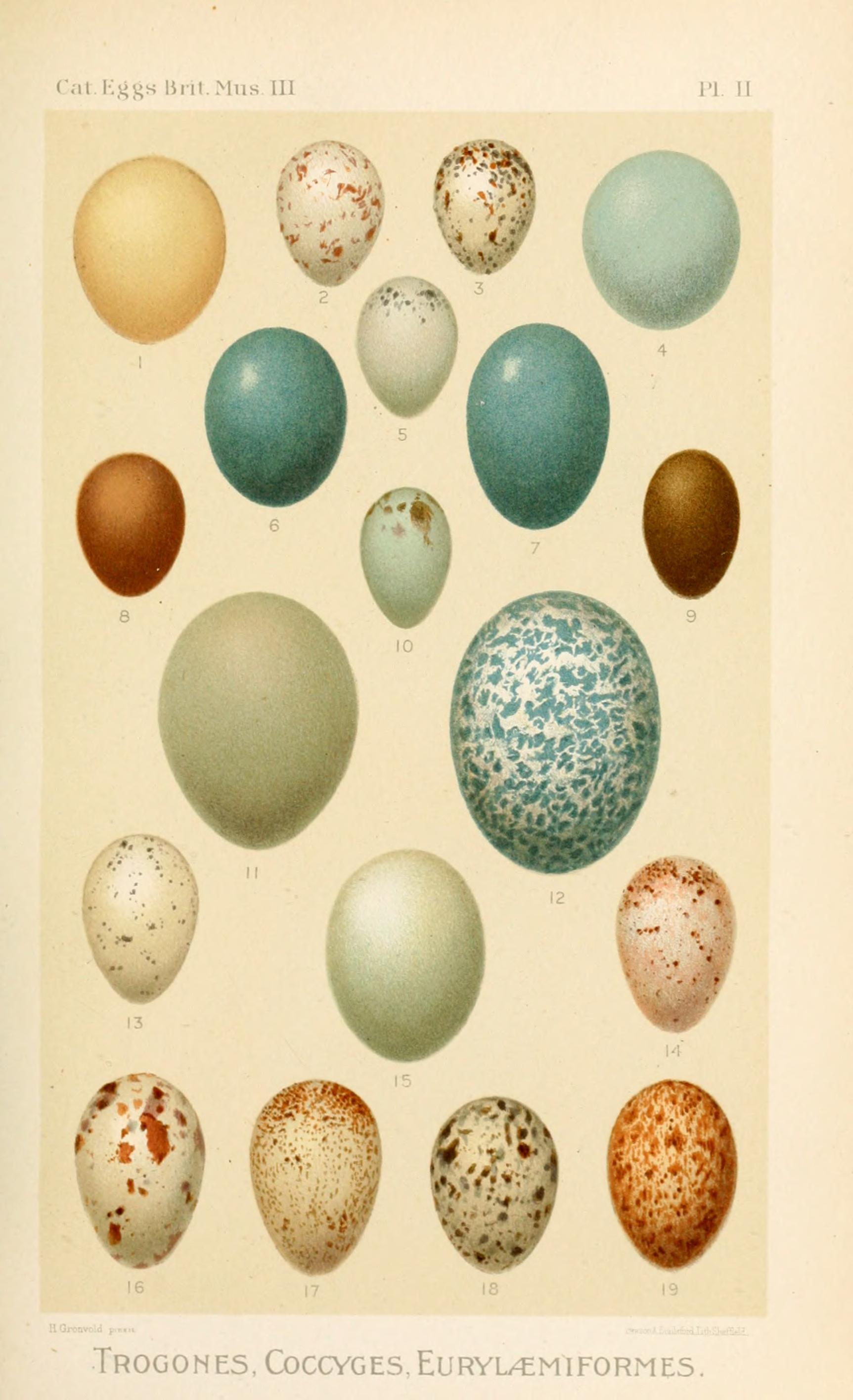 Catalogue of the Collection of Birds' Eggs in the British Museum / By E. W. Oates [and afterwards] by S. G. Reid [and] W. R. Ogilvie-Grant.